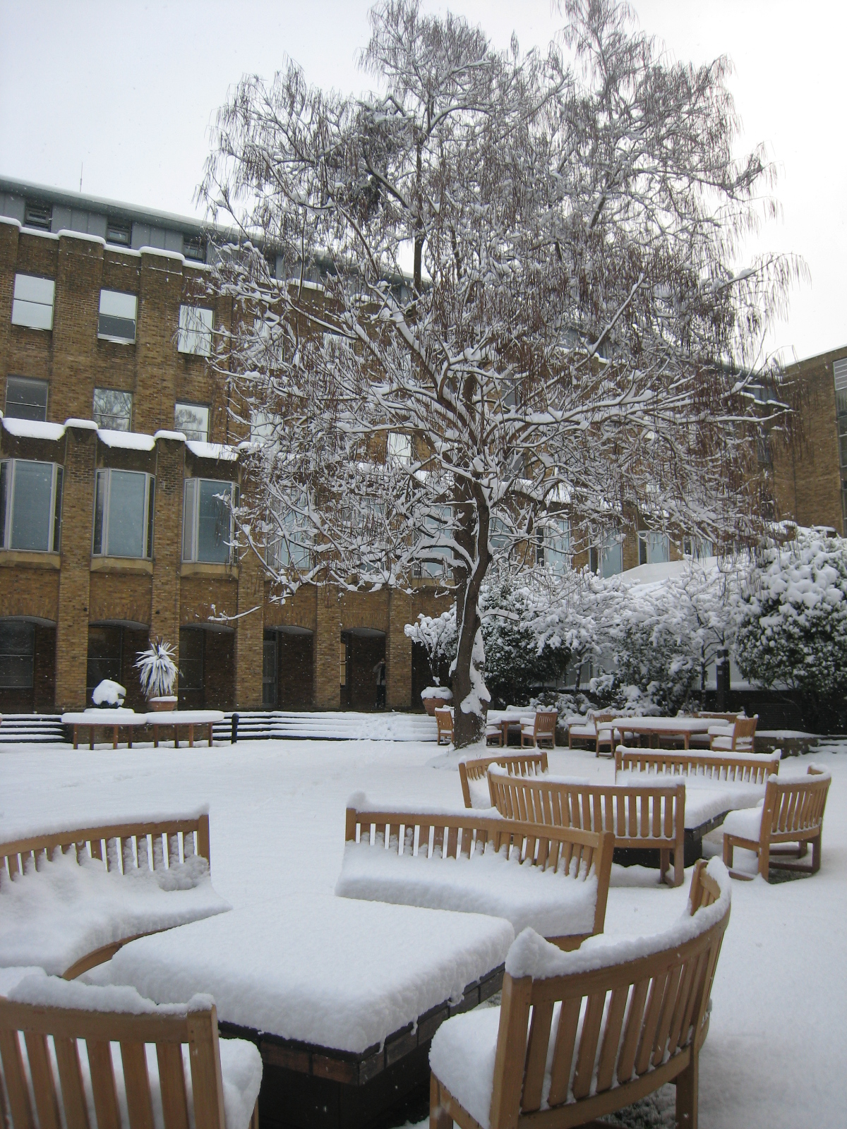 The London Business School courtyard covered in snow